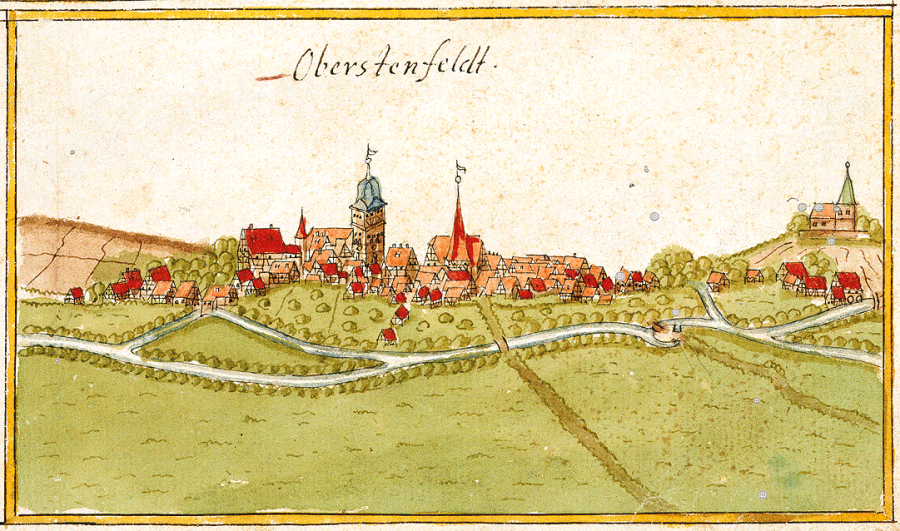 View of Oberstenfeld from the forest register books created by Andreas Kieser